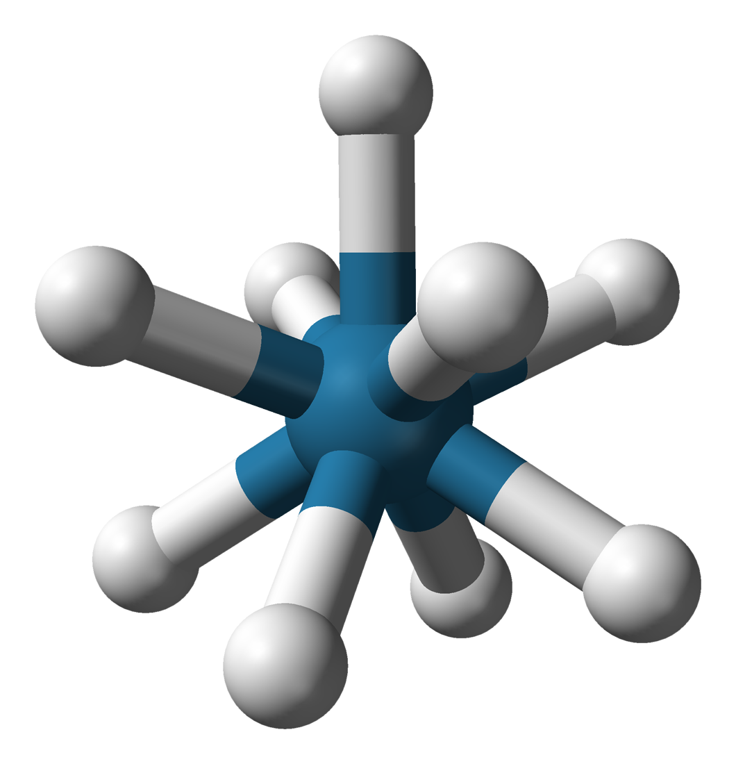 Ball-and-stick model of the nonahydridorhenate anion, ReH9−